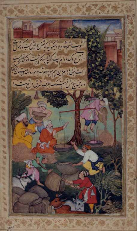 Almond Harvest, from the Babur-namah